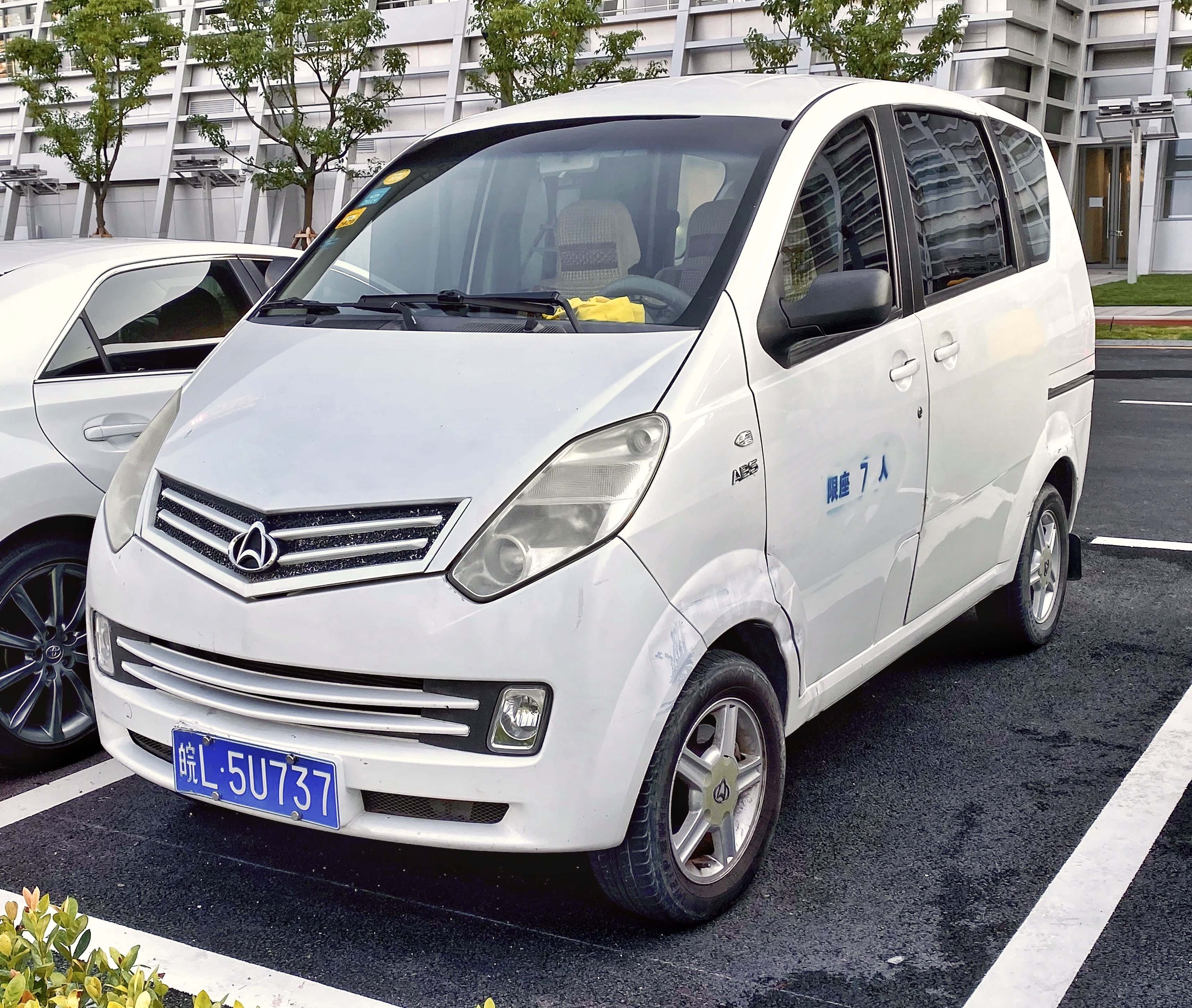 A 2005 Chana CM8 photographed in Dongguan, Guangdong province, China. 中文（中国大陆）: 一辆2005年的长安CM8，拍摄于中国广东省东莞市。